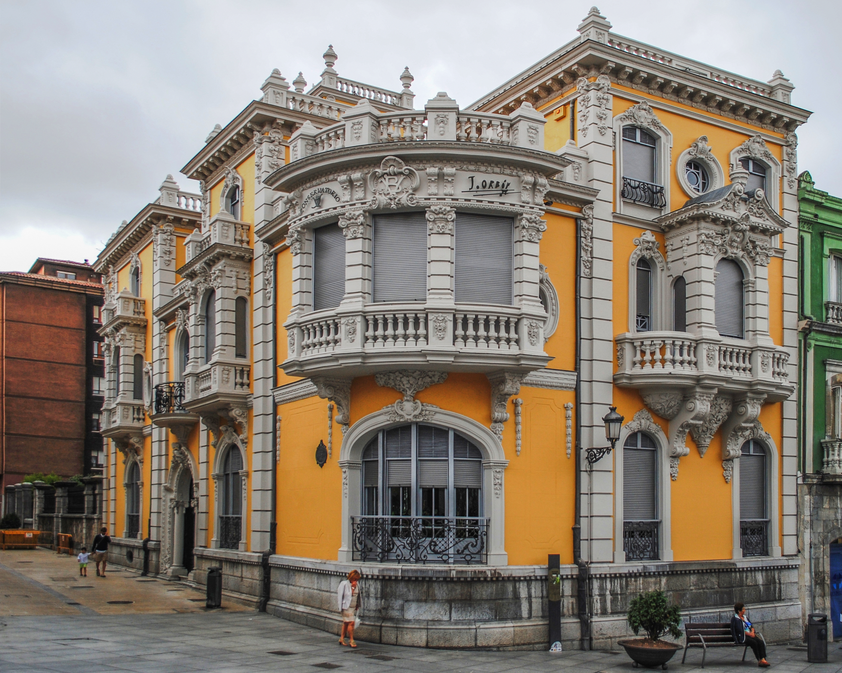 See title.